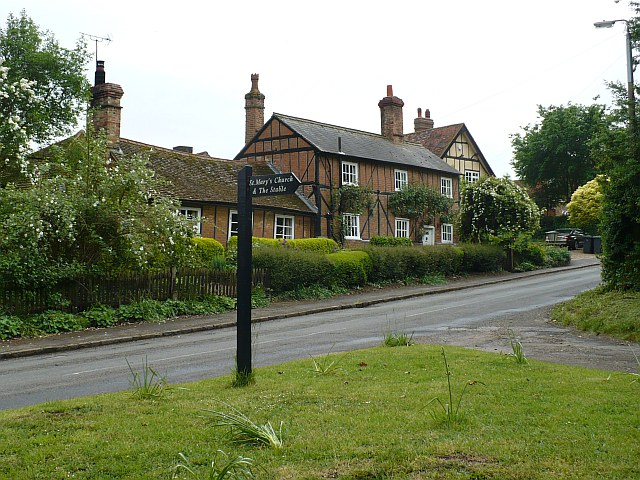 Haynes Church End. The junction with the lane to 824843.